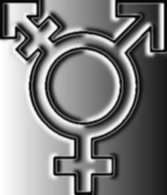 Transgender symbol photoshopped to look like metal or chromed. Created on Adobe 5.0